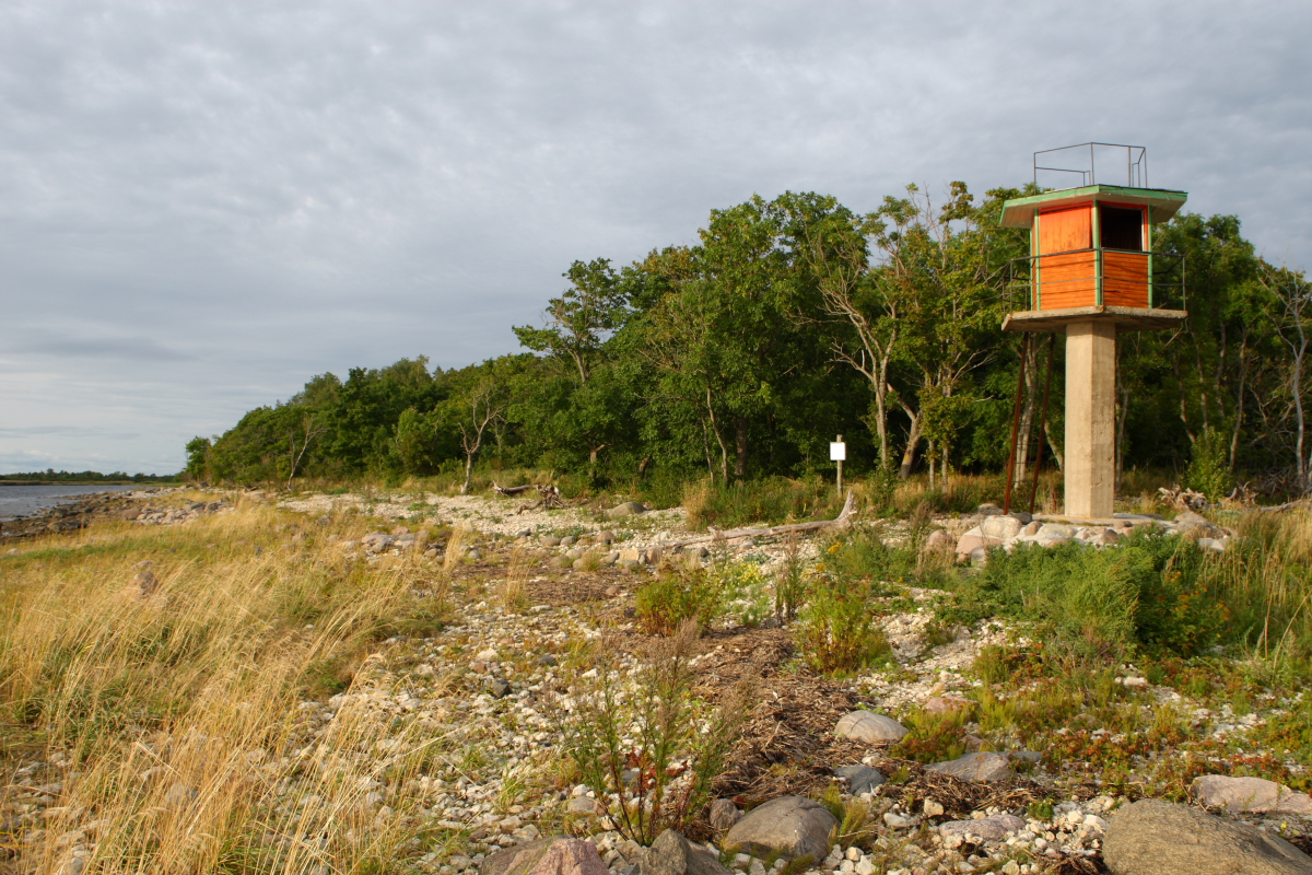 Puhtulaid, Lääne County, Estonia